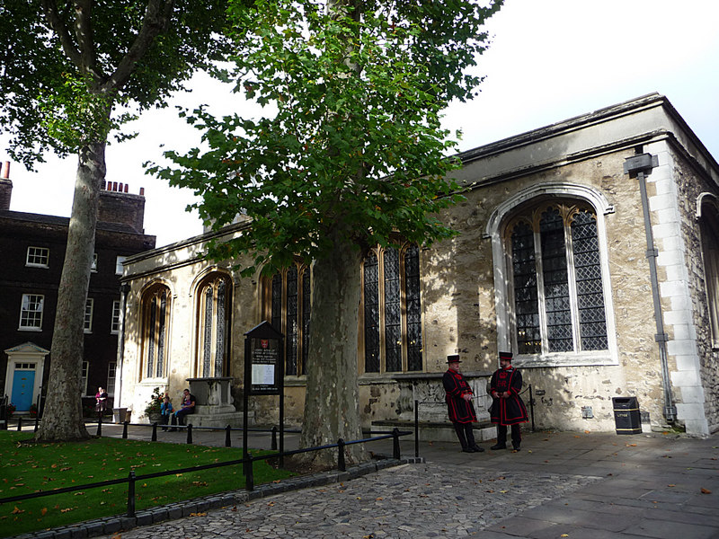 Tower of London The Chapel Royal of St. Peter ad Vincula.